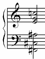 Petrushka chord, chord used in Stravinsky's ballet Petrushka notation: Ziga 18:22, 13 February 2007 (UTC)